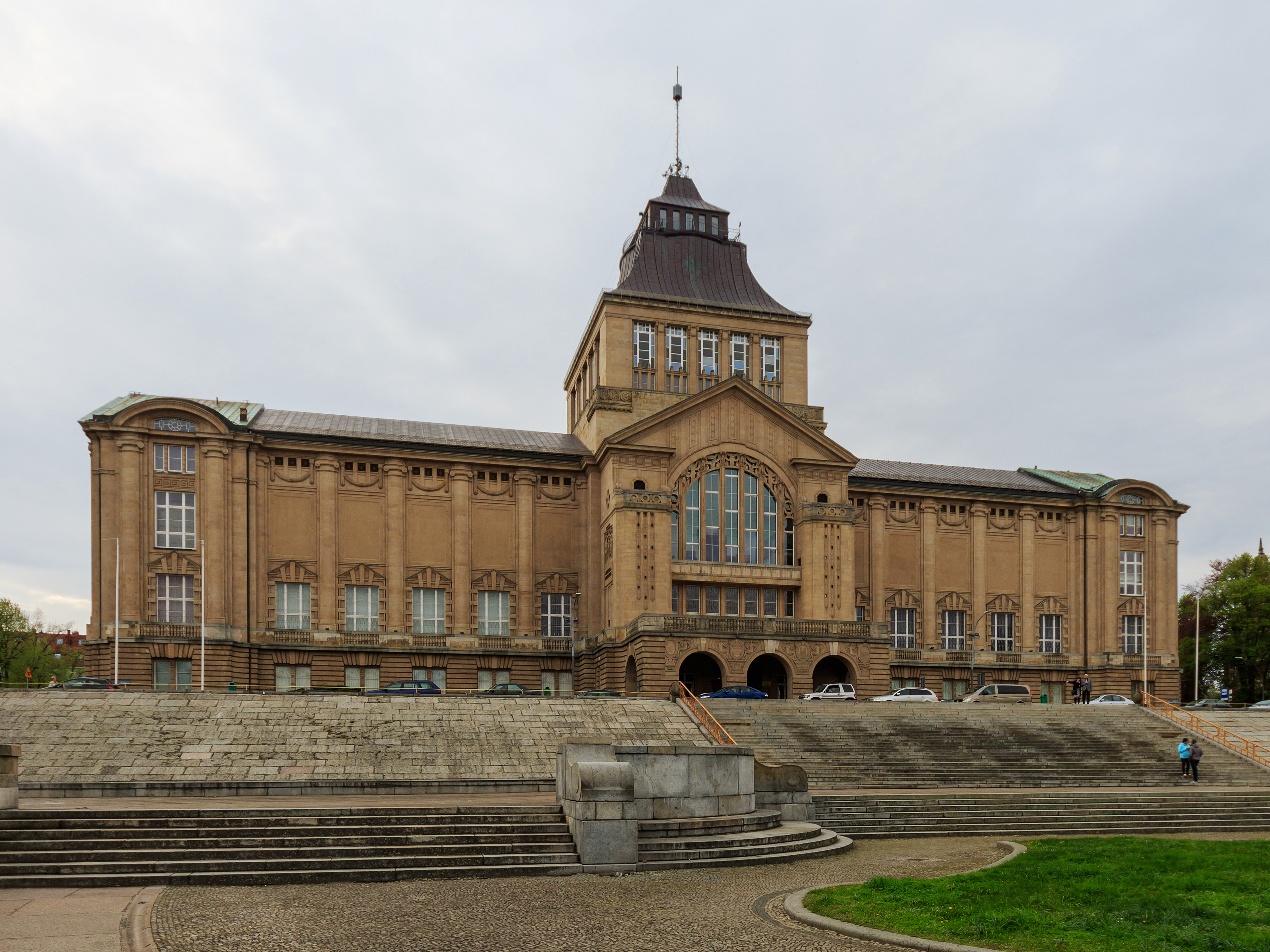 National Museum in Szczecin (Poland)